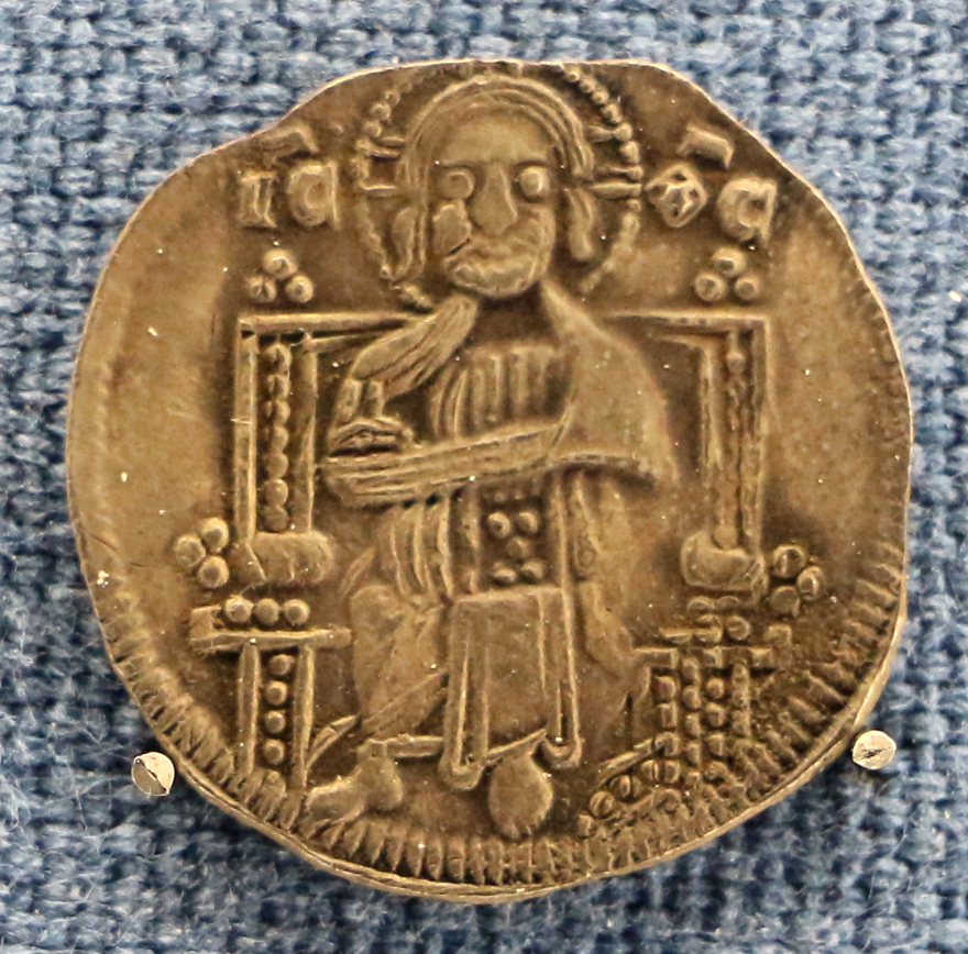 coins in Palazzo Blu (Pisa)